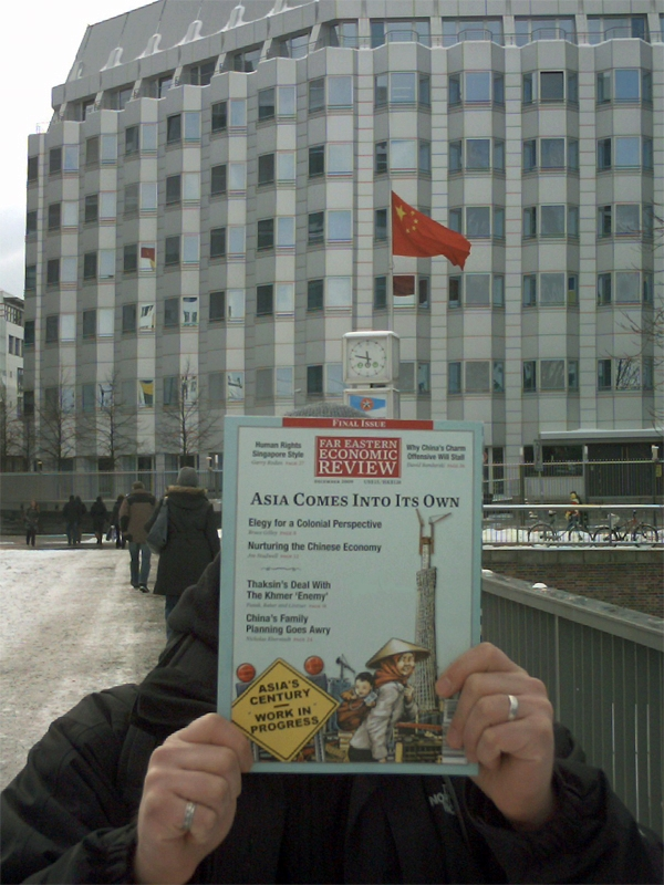 Former subscriber with the Final Issue of Far Eastern Economic Review (December 2009) in front of the Chinese Embassy in Berlin, Germany